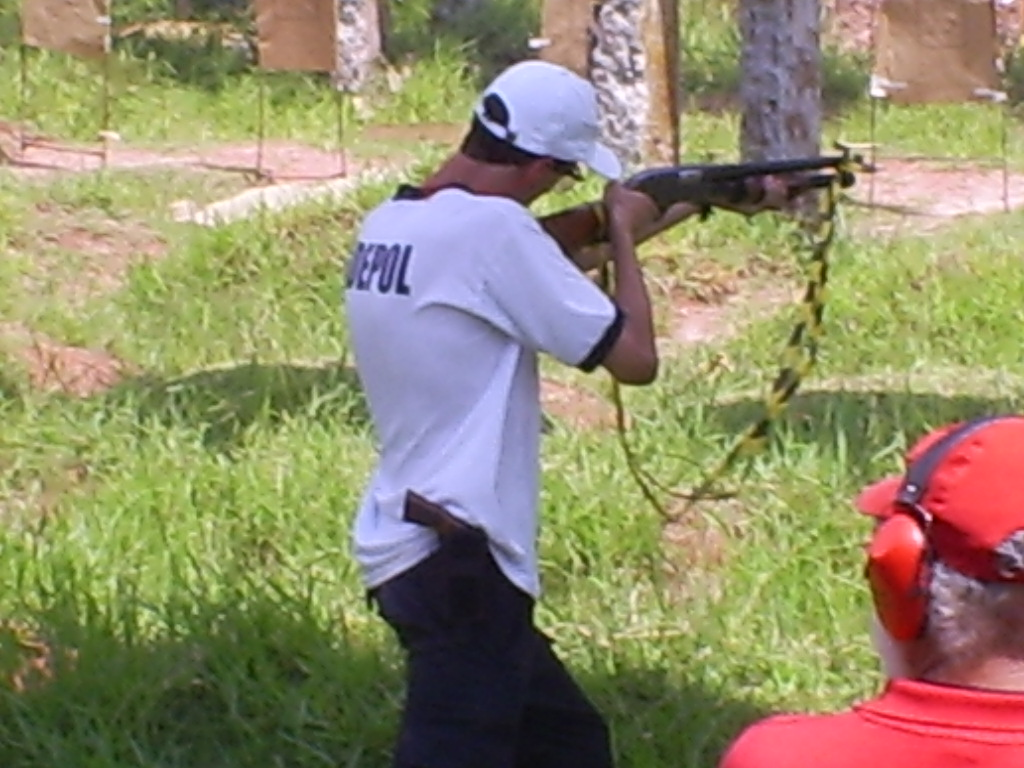 Police officer of Brazilian Civil Police